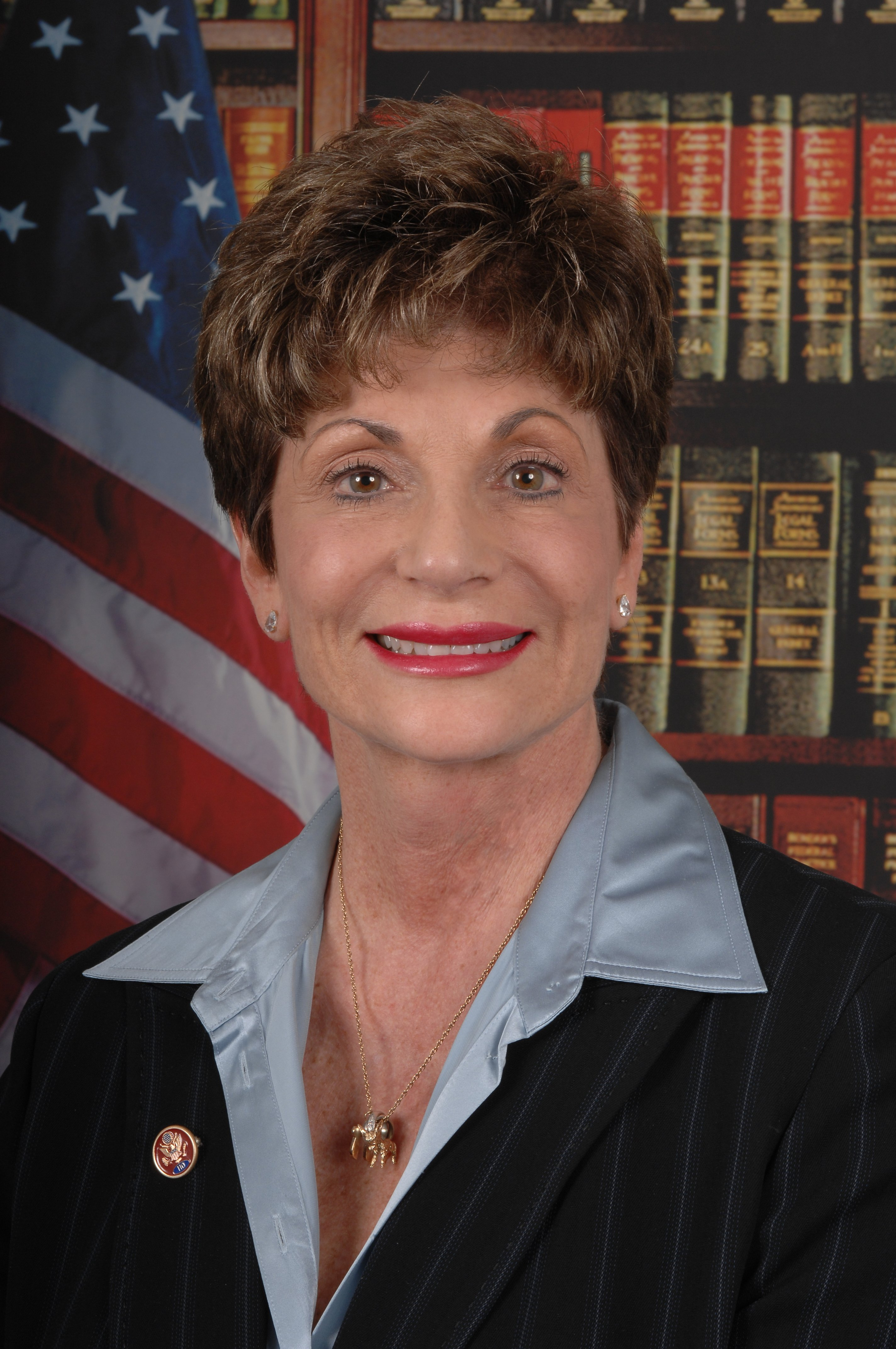 Shelley Berkley, member of the United States House of Representatives.